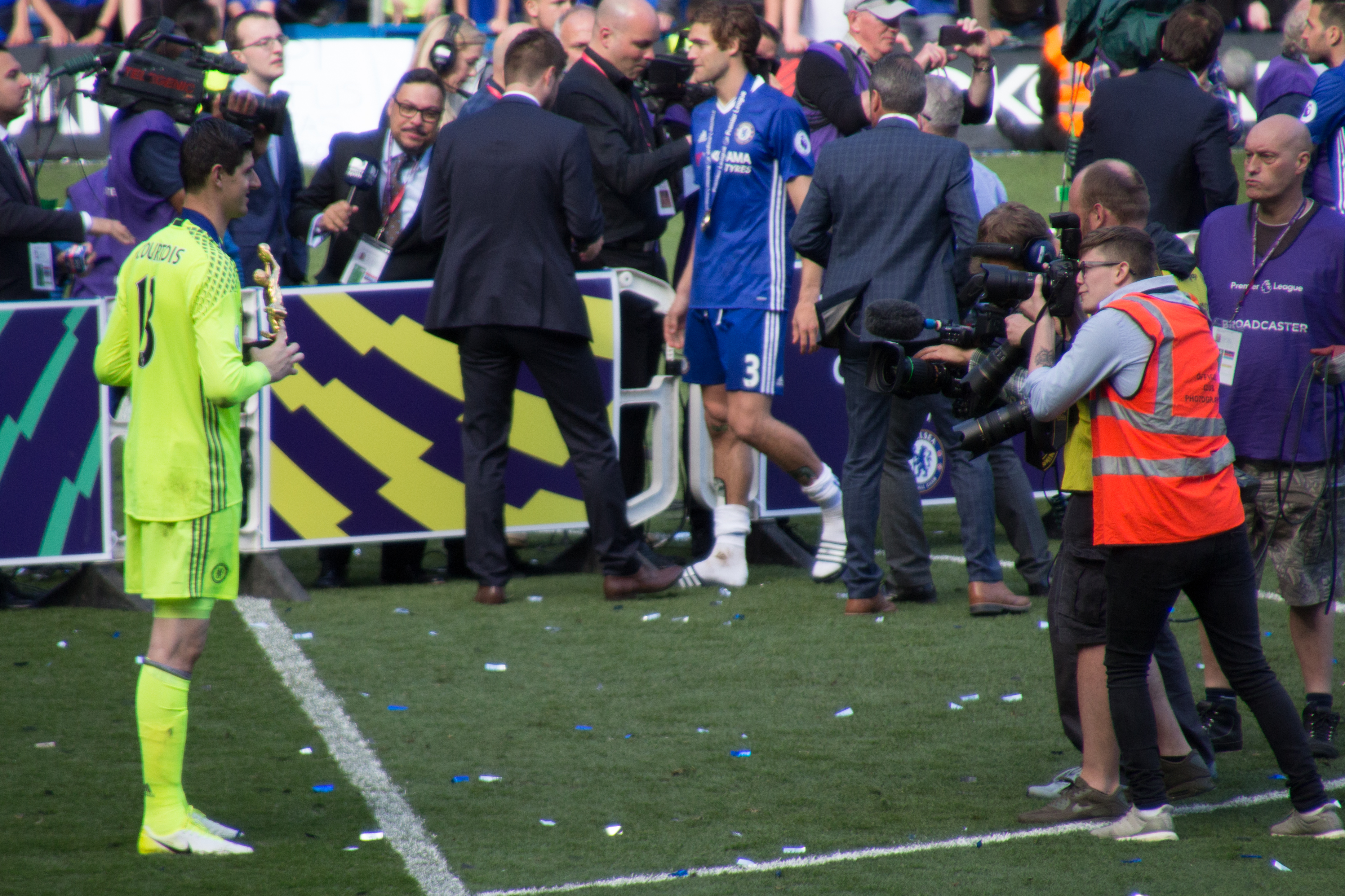 21.5.17 Post Match Celebrations